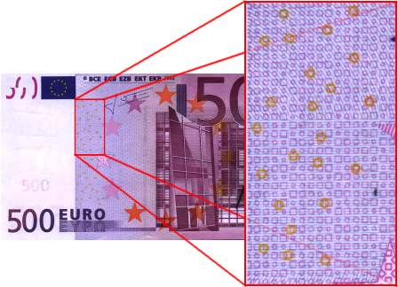 Banknote 500 Euro, showing the EURion constellation